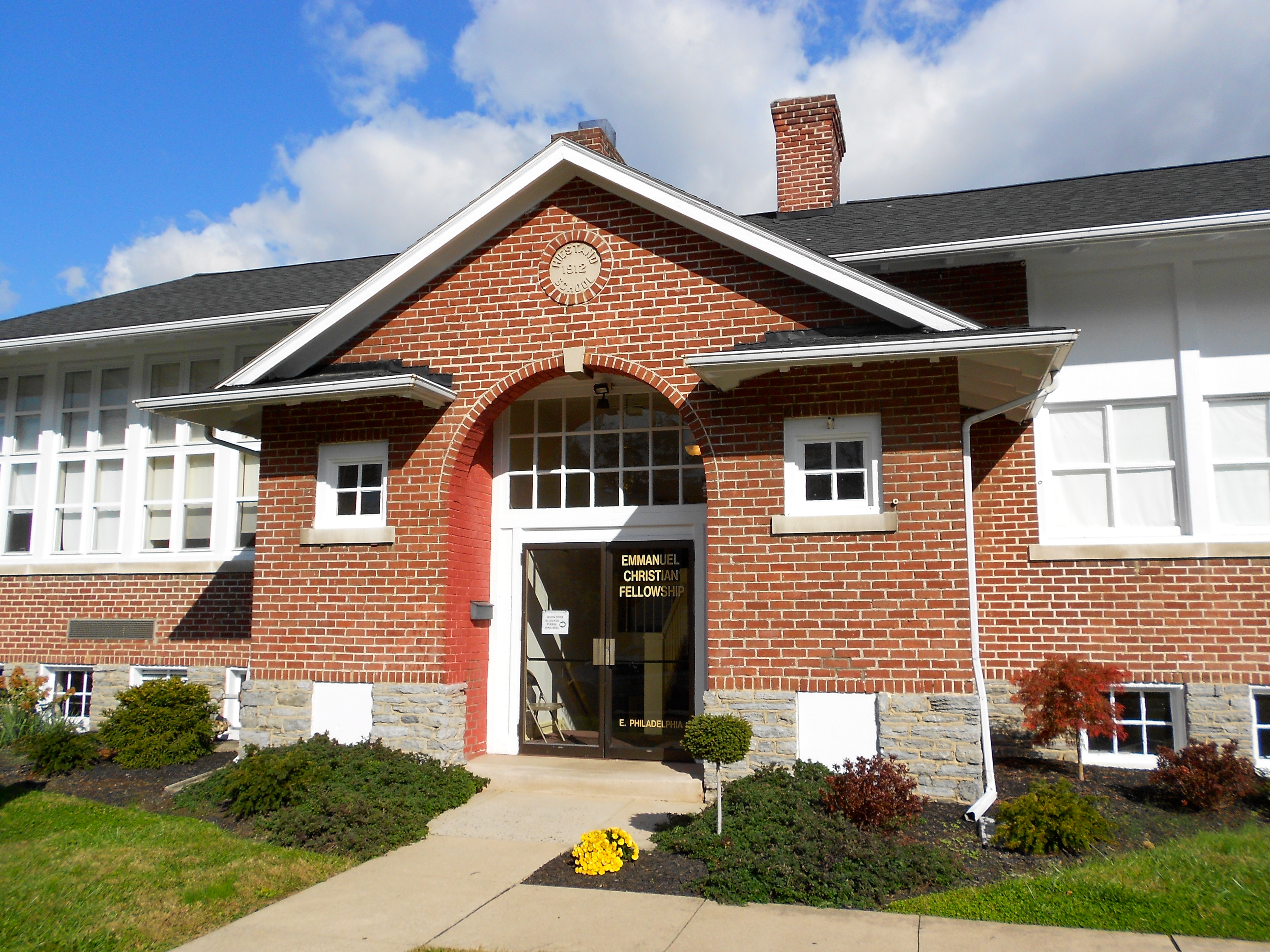 Former school on Old Philadelphia Street in the East York Historic District, Springettsbury Township, York County, Pennsylvania, just east of the city of York. The district was listed by the NRHP on March 12, 1999 and is bounded by Oxford Street, Wallace Street, Royal Street, and Eastern Boulevard. Heistand School built 1912, now Emmanual Christian Fellowship.